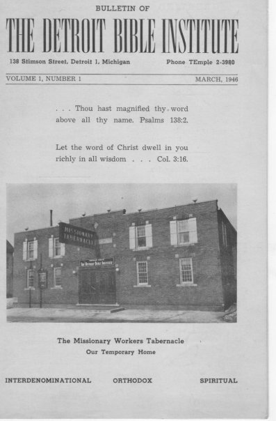 Cover of 1946 Detroit Bible Institute catalog showing Missionary Workers Tabernacle building.